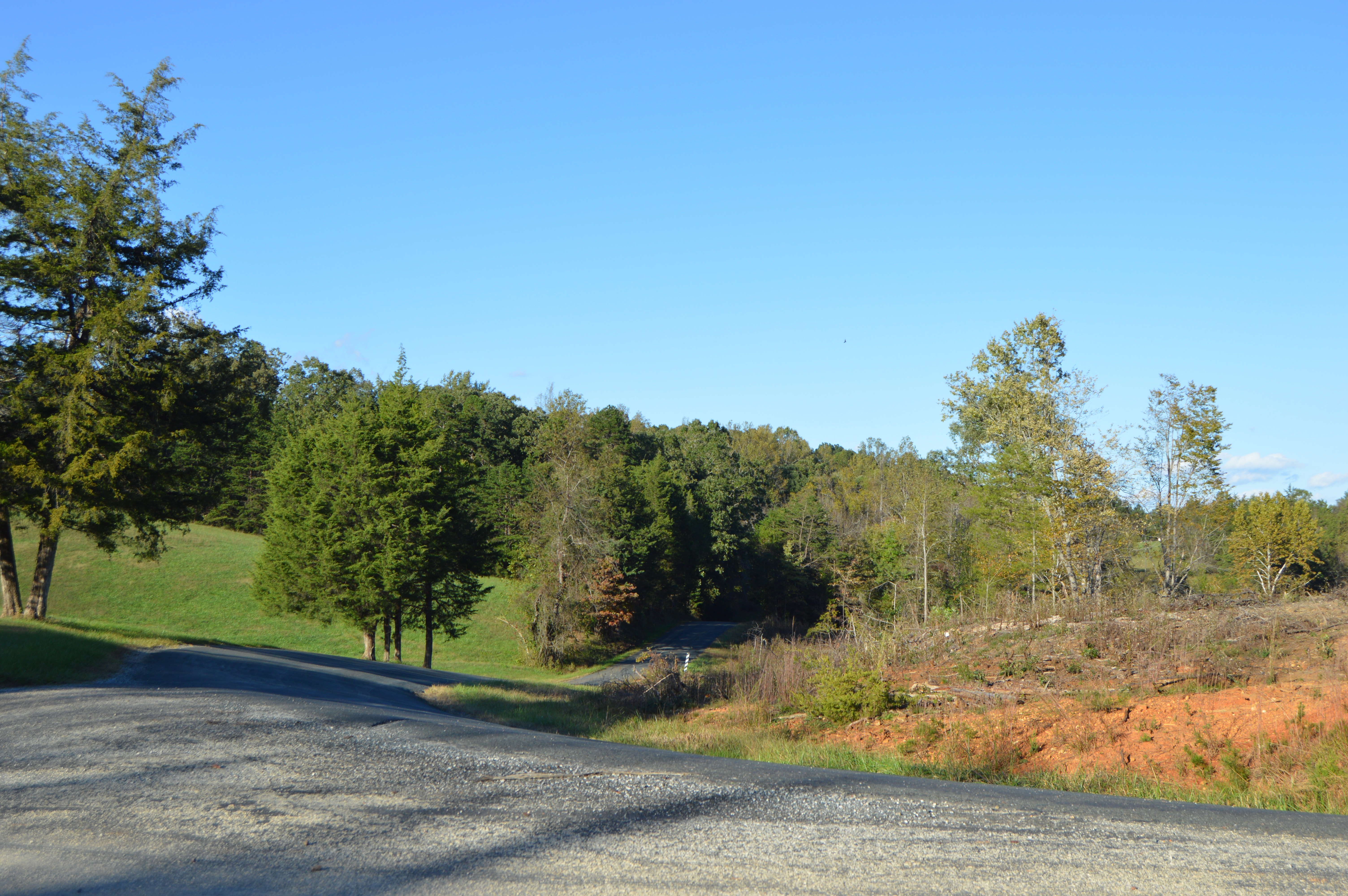 Open countryside at the spot once known as Buffalo Springs, located at the intersection of Norwood Road and Greenfield Drive in Nelson County, Virginia, United States.